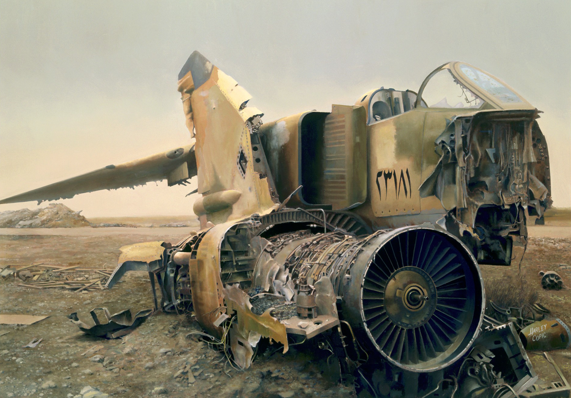 Artwork. Destroyed Iraqi Mig-23